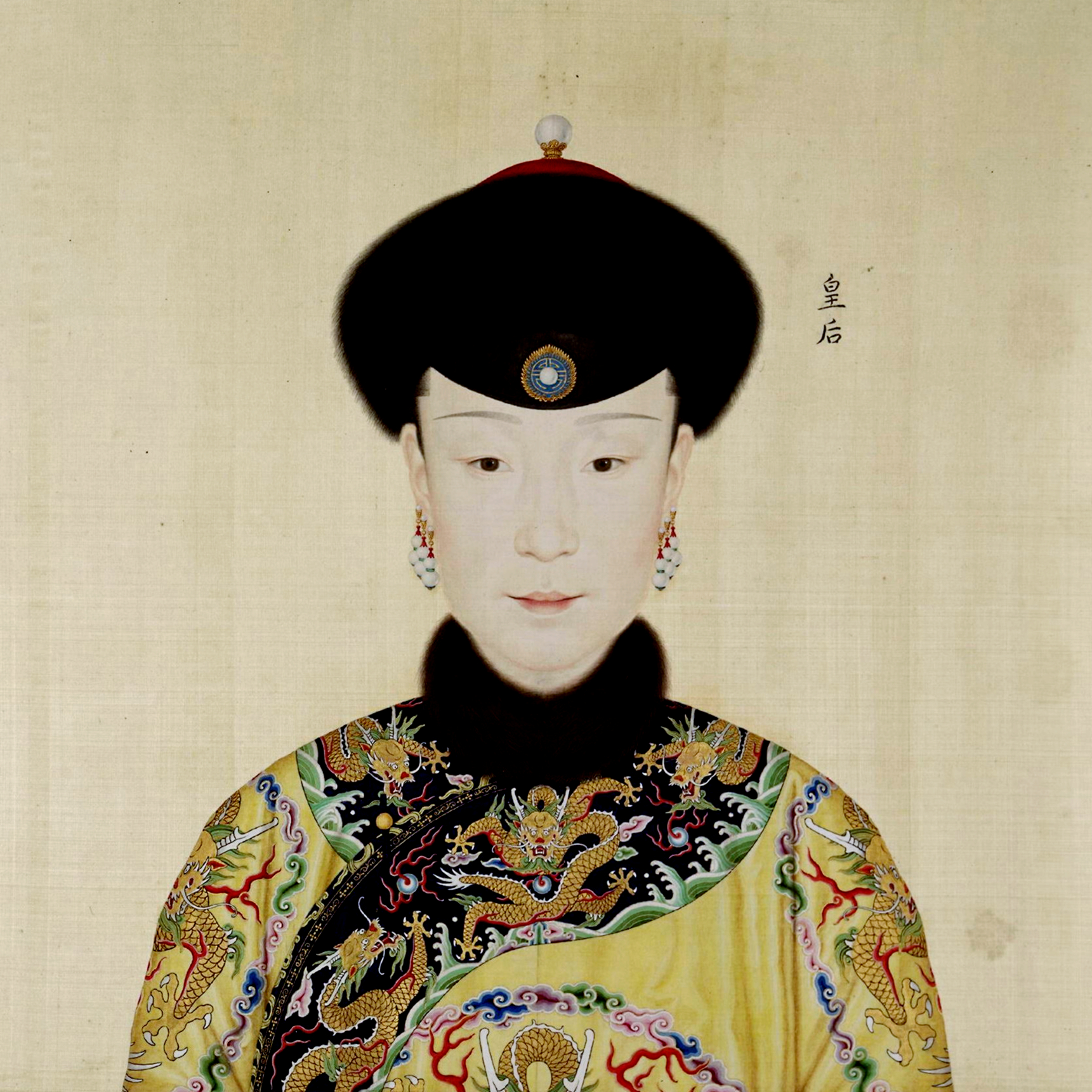 The Official Imperial Portrait of Qing Dynasty's Empresses